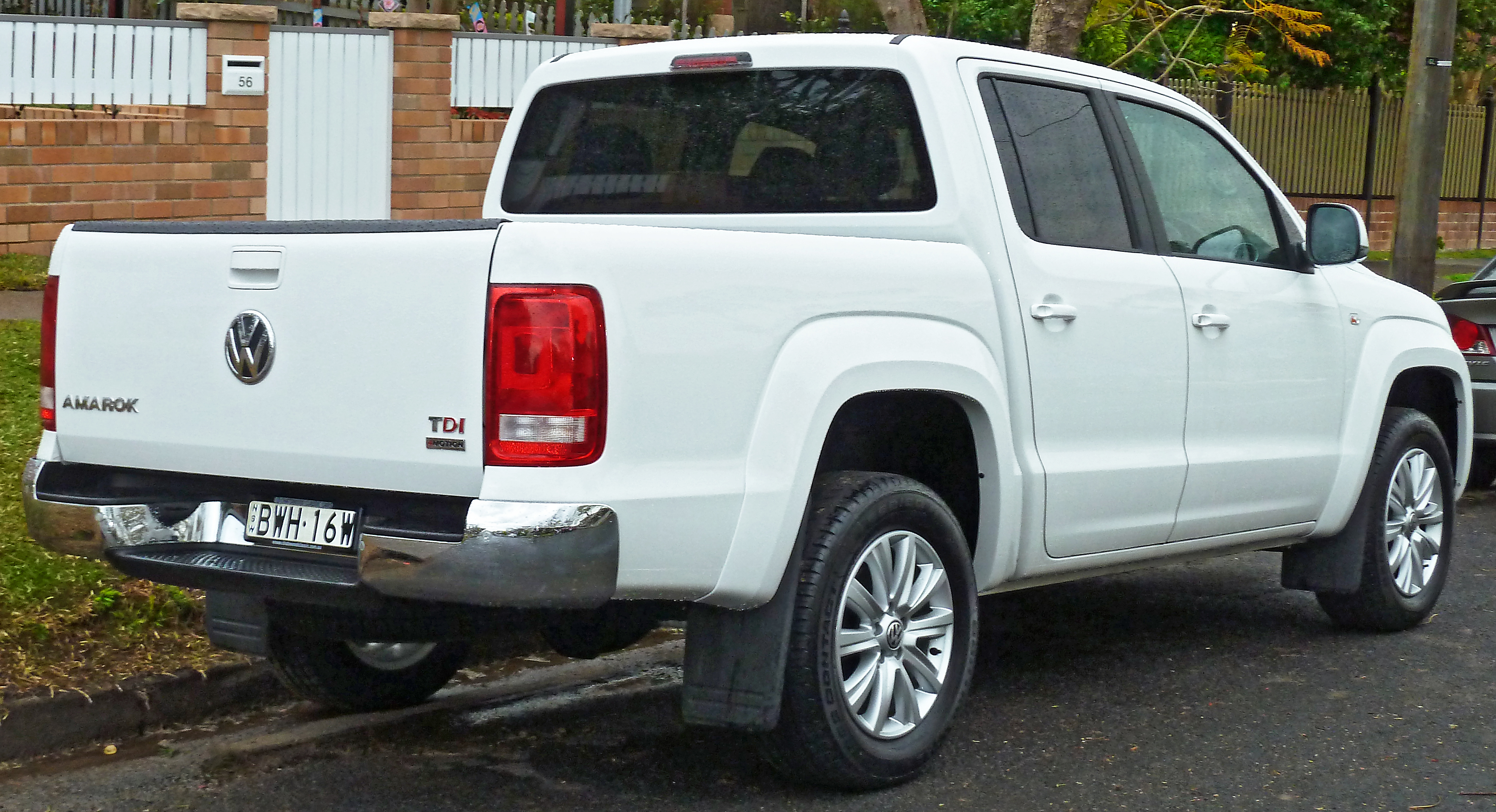 2011 Volkswagen Amarok (2H) TDI400 Highline 4-door utility. Photographed in Roseville, New South Wales, Australia.